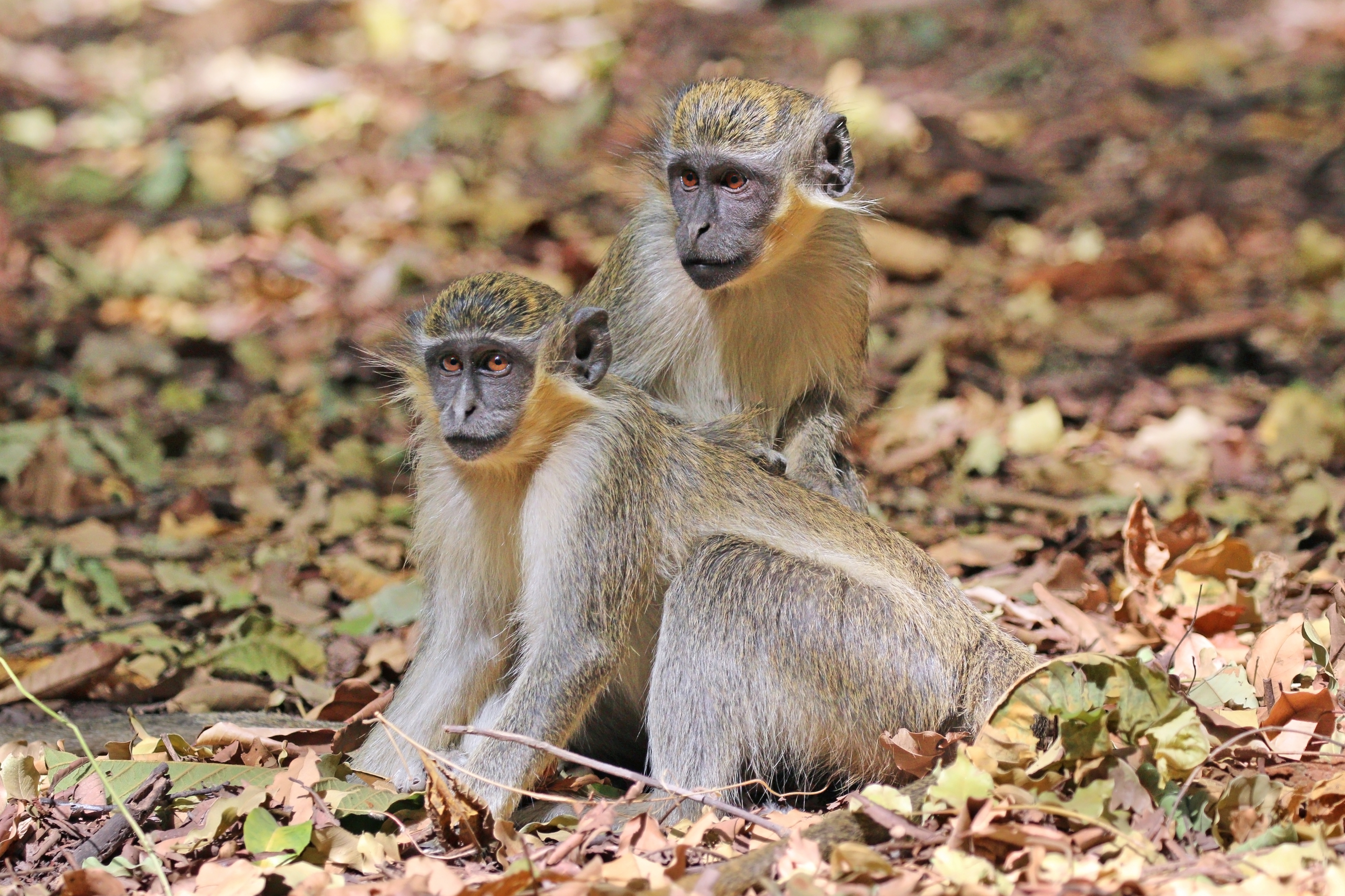 Green monkeys (Chlorocebus sabaeus), The Gambia